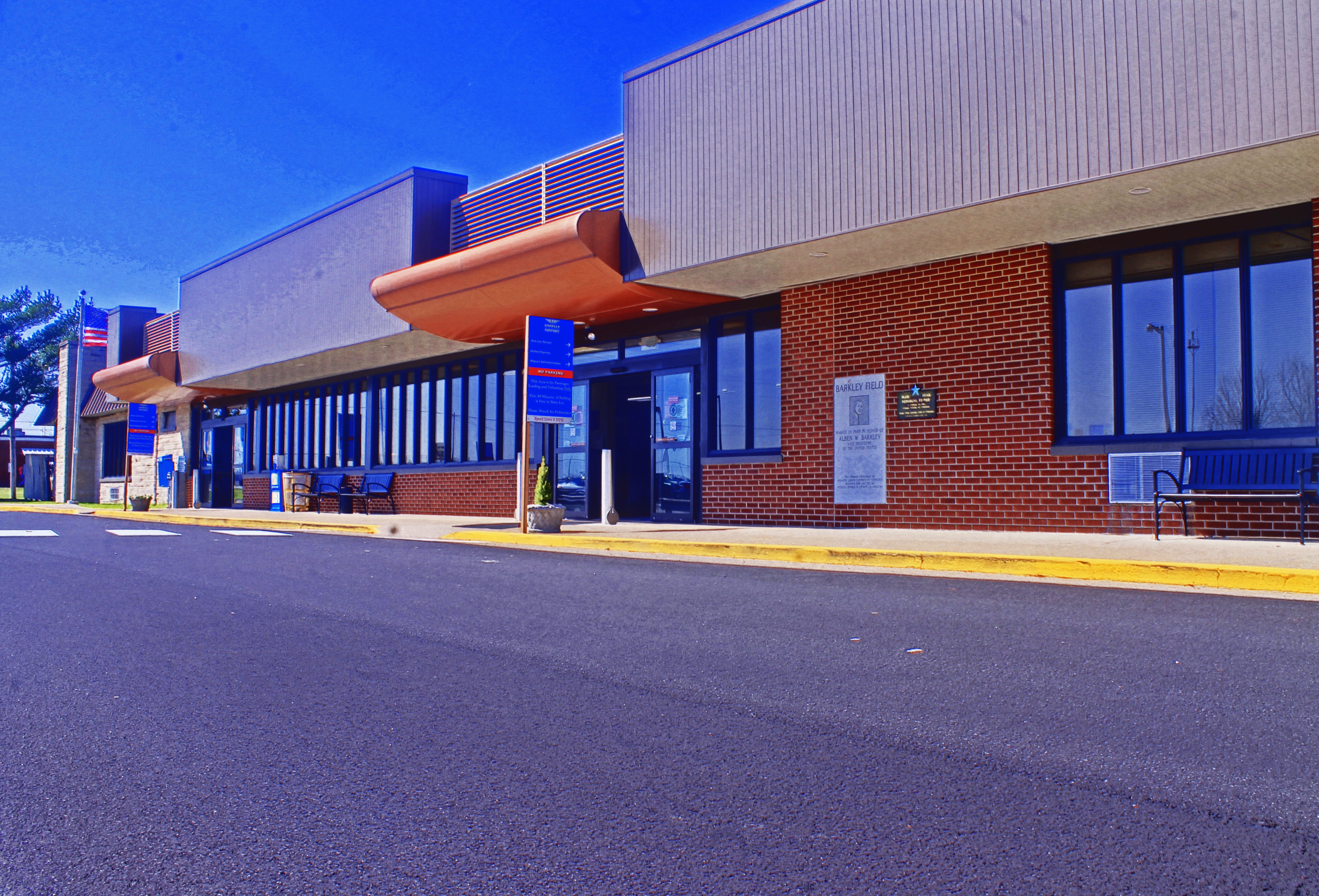 Terminal At Barkley Regional Airport